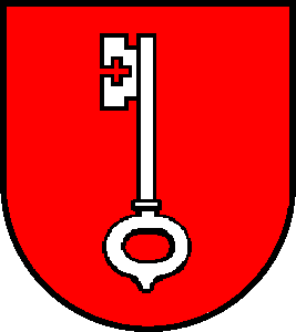 Signum antiquum Cellae praefectura Bremogarti civitatis in Helvetia s'alt Wappe vum Chälleramt vu de Schtadt Brämgarte i de Schwiiz made by Usor:Franciscus himself, uploaded on the 1 of August MMVI there is no copyright.